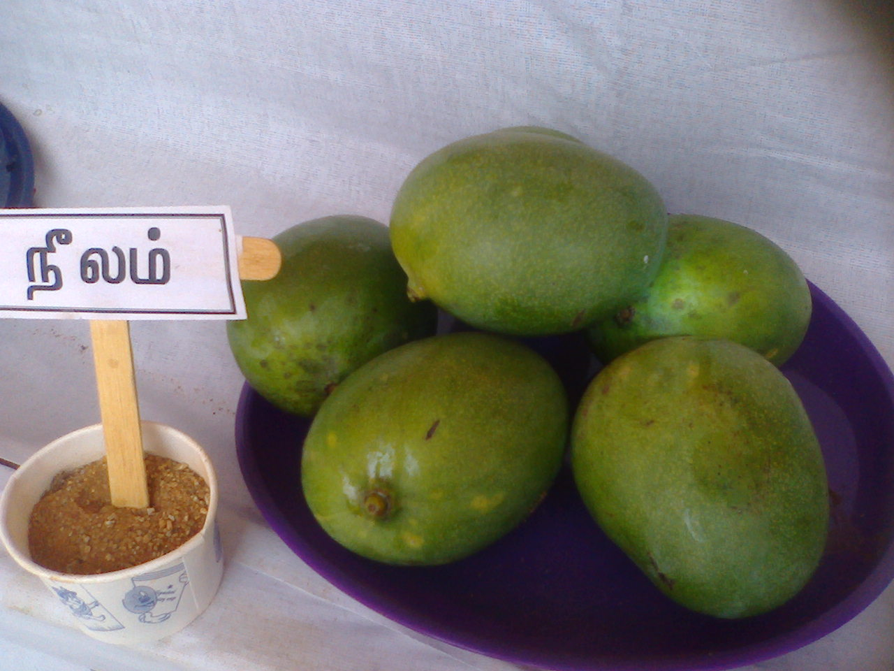 நீலம் மாம்பழம்